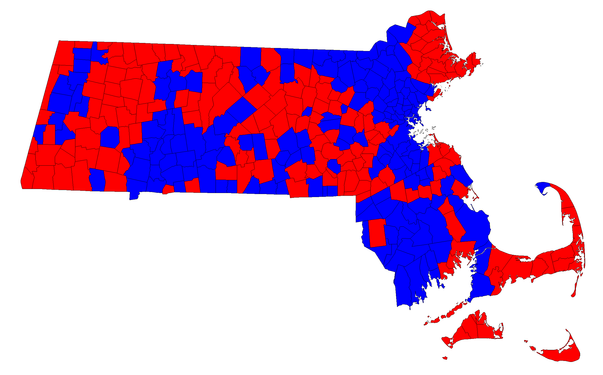 Results of the 1978 United States Senate election in Massachusetts. Towns in blue won by Tsongas, red by Brooke. Data procured at